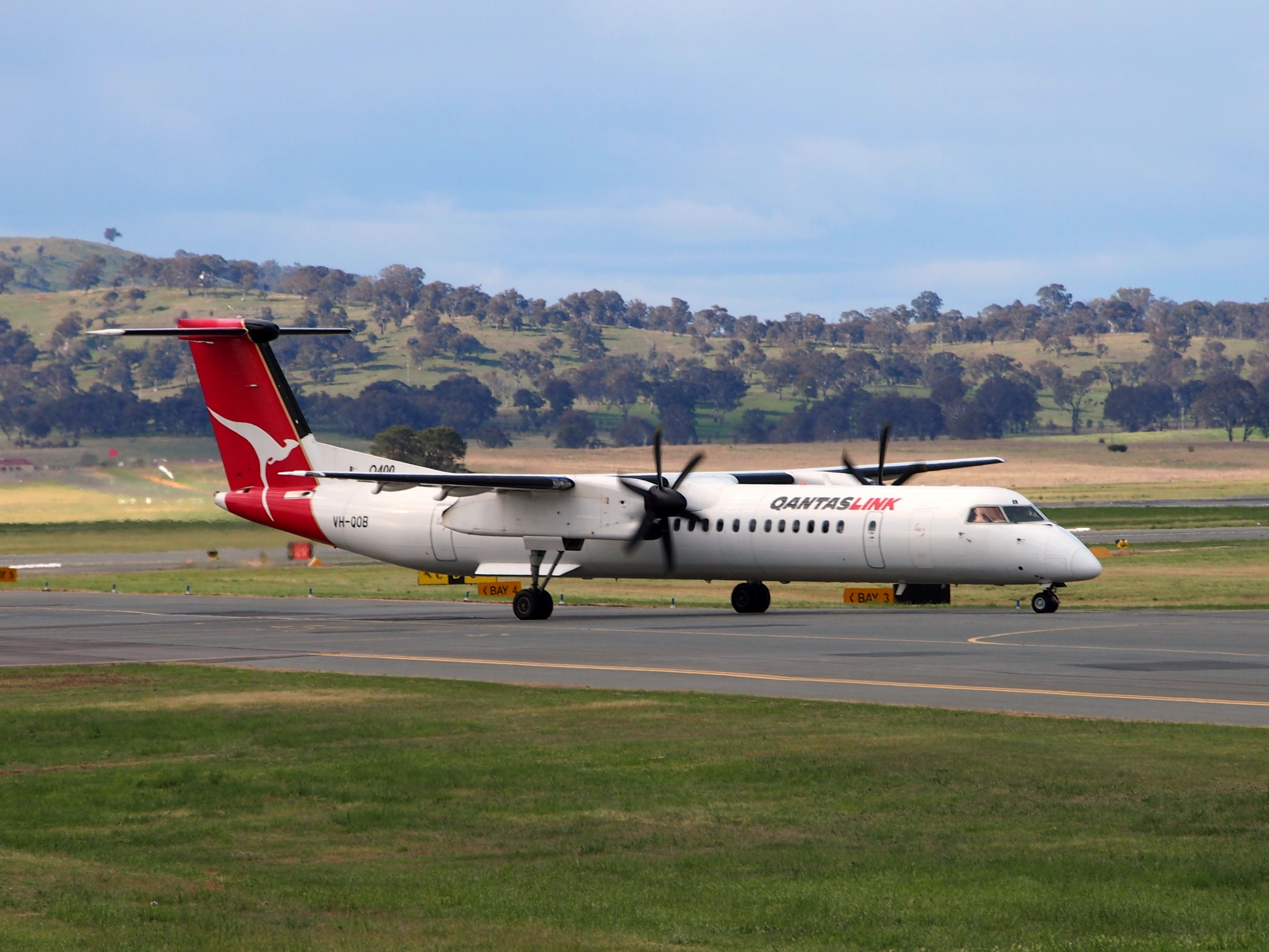 QantasLink Dash 8-Q400 VH-QOB taxiing to the runway at Canberra Airport